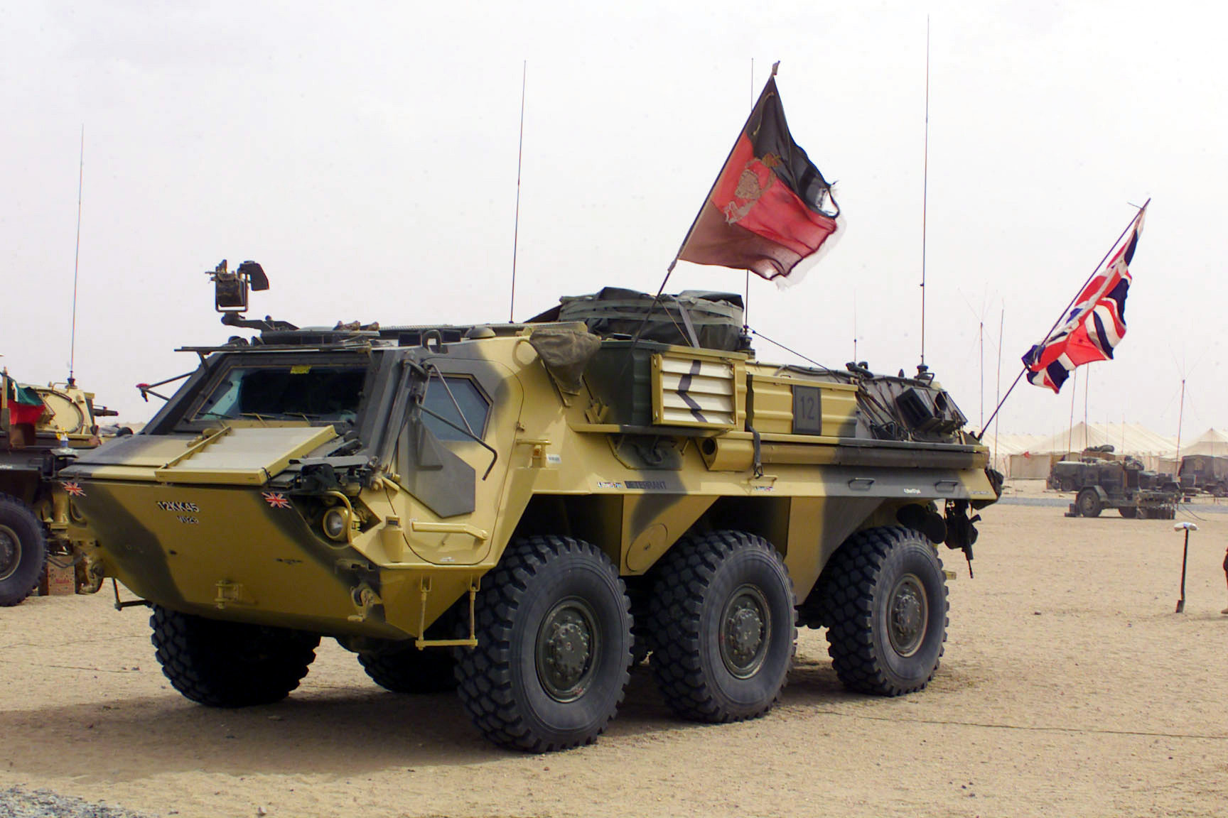 A British Light Armored Field Radar Vehicle Transportpanzer 1 Carrier sits at a Living Support Area (LSA) belonging to Regimental Combat Team 5, in Kuwait (KWT), during Operation ENDURING FREEDOM. Note: This is a British Fuchs CBRN Reconnaissance Vehicle, not Radar. The Description of Dodmedia.mil is wrong.